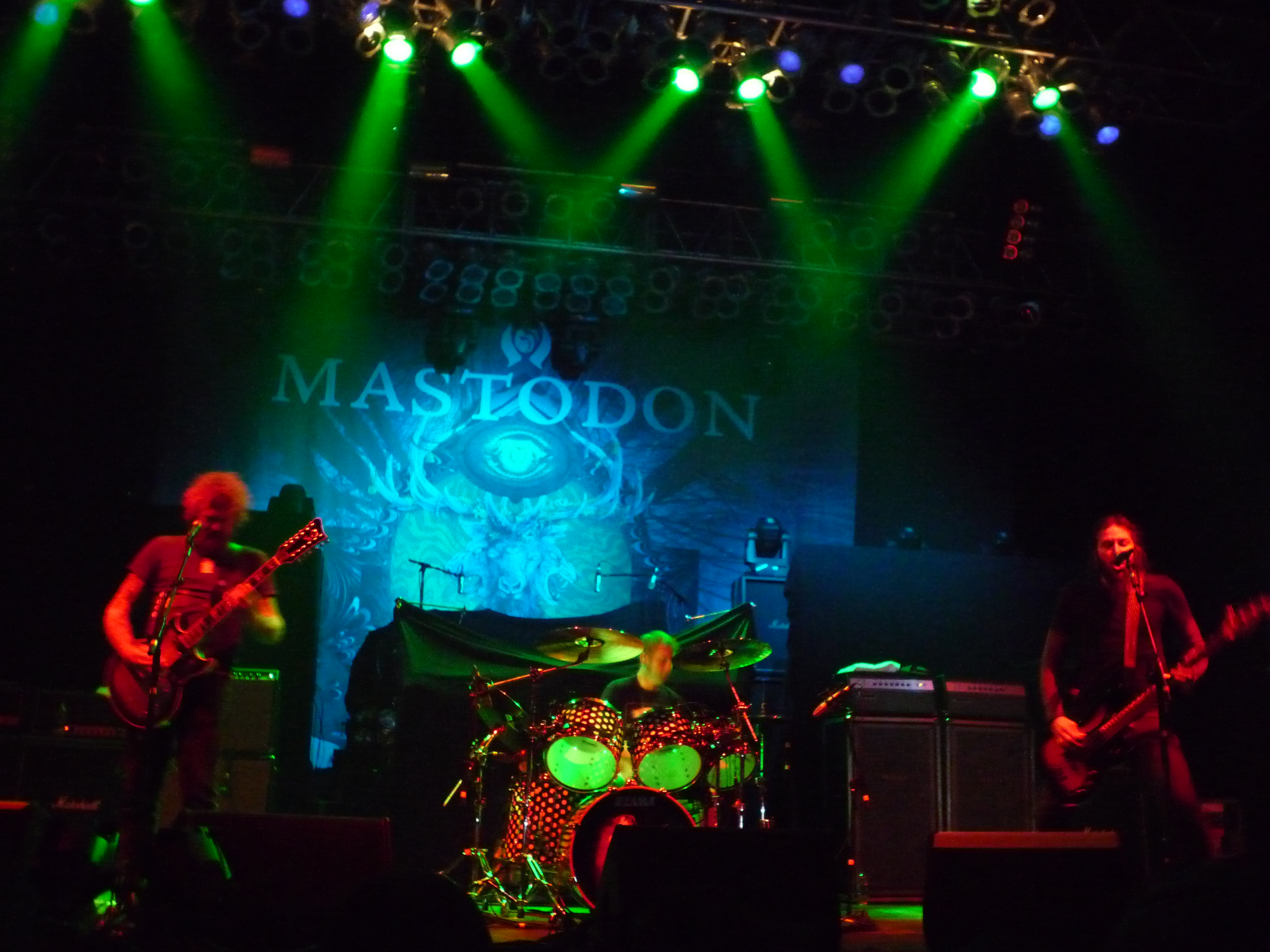 Mastodon at "The Unholy Alliance Tour: Chapter III" in Vienna.